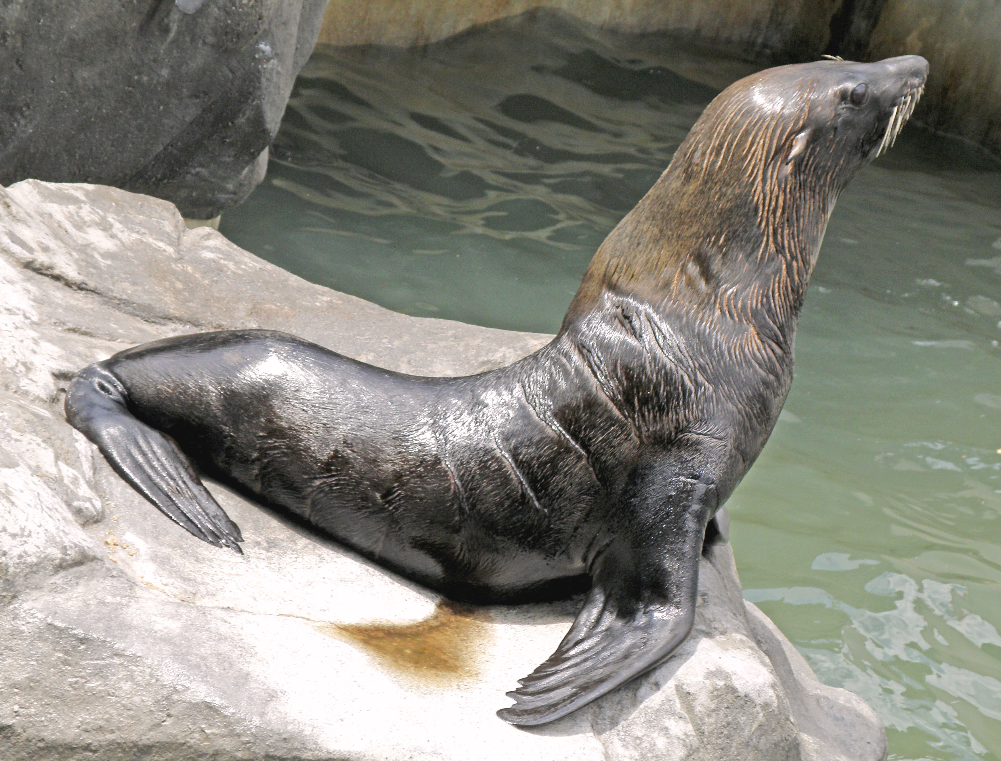 South American fur seal (Arctophoca australis australis = Arctocephalus australis) .